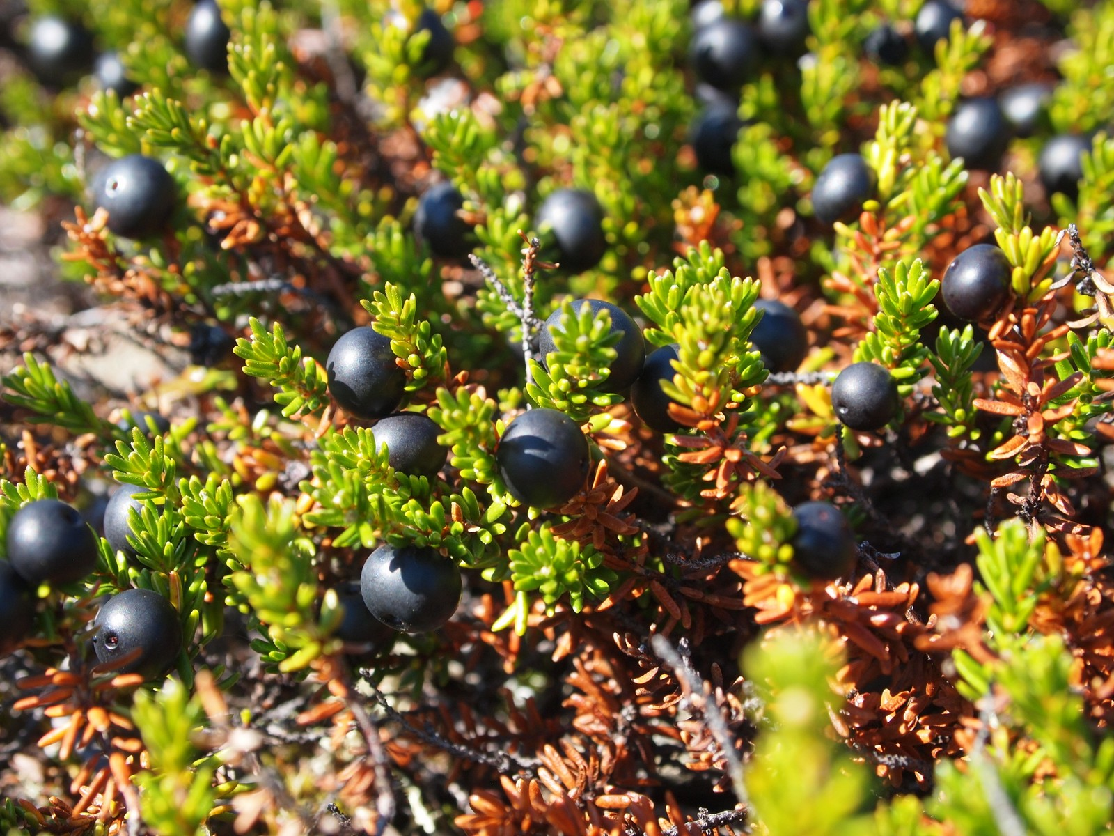 Arctic blackberries (Empetrum nigrum) grow on stems that look a little like miniature evergreen trees. "Crowberries" are the common name listed in most books, but the locals in northwest Alaska call thm blackberries. Close view of smooth black berries